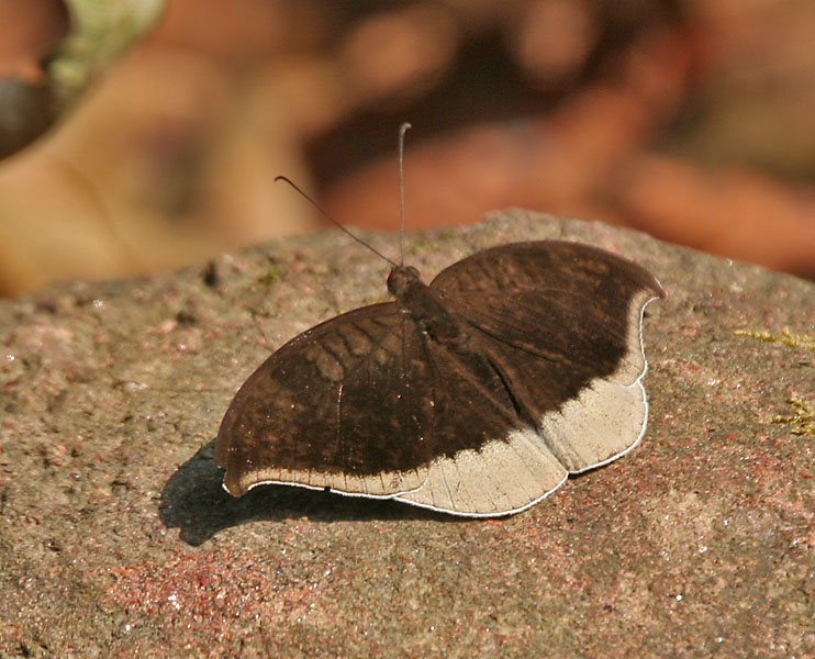 Grey Count Tanaecia lepidea at Samsing in Darjeeling district of West Bengal, India.